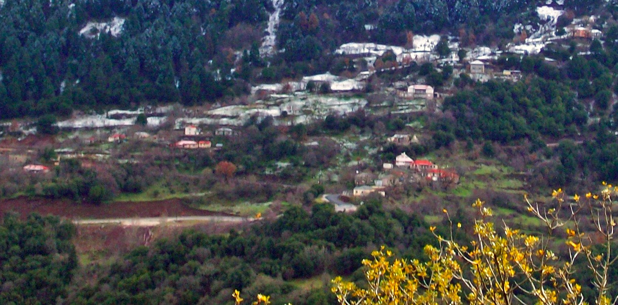 Panoramic view of Palaiohori Fodotou